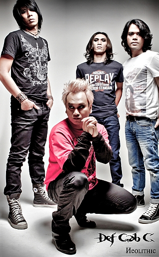 Def Gab C new album Neolithic was release in 2011